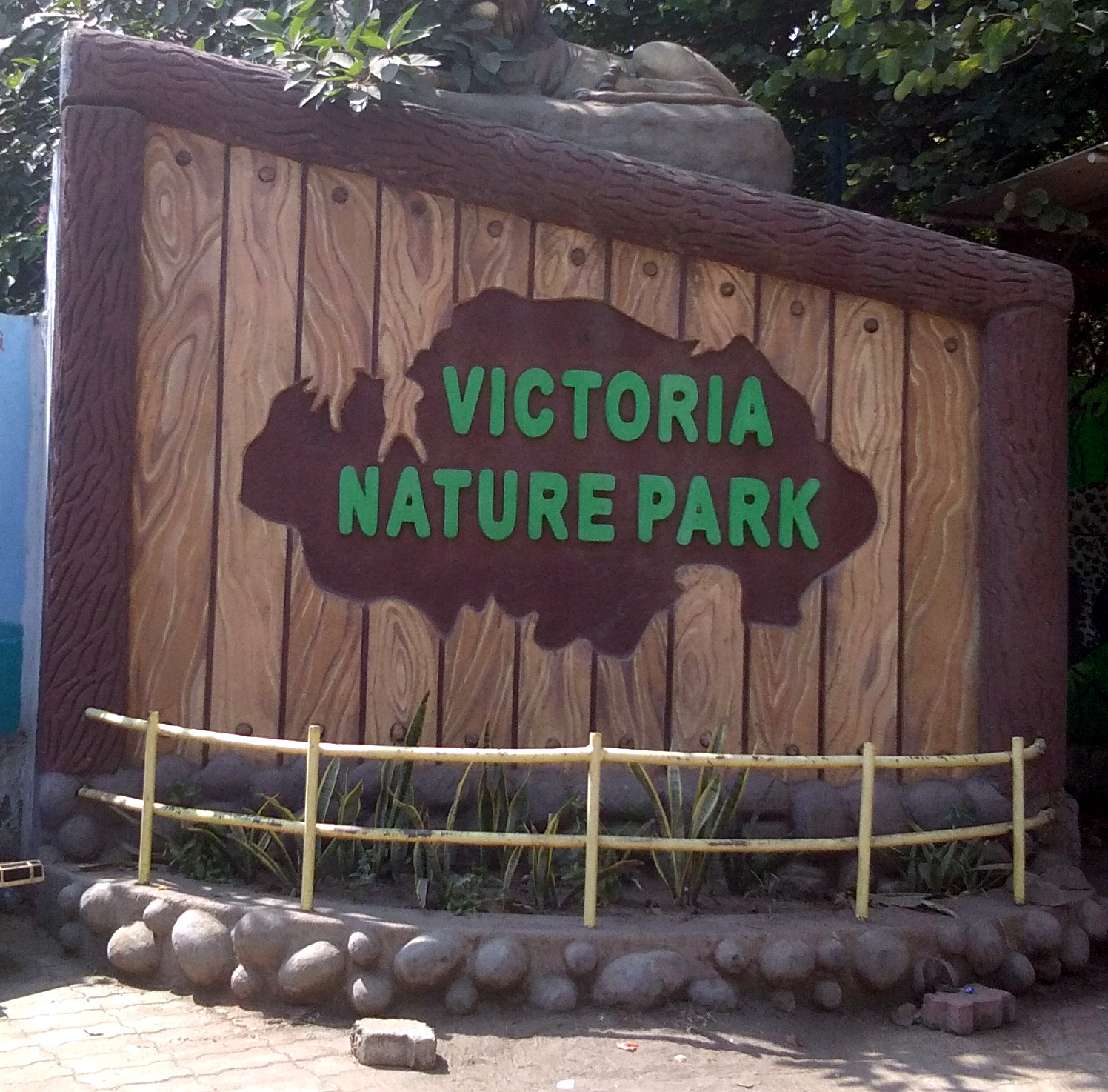 Name place of the park on the right hand side of Gaushala Gate